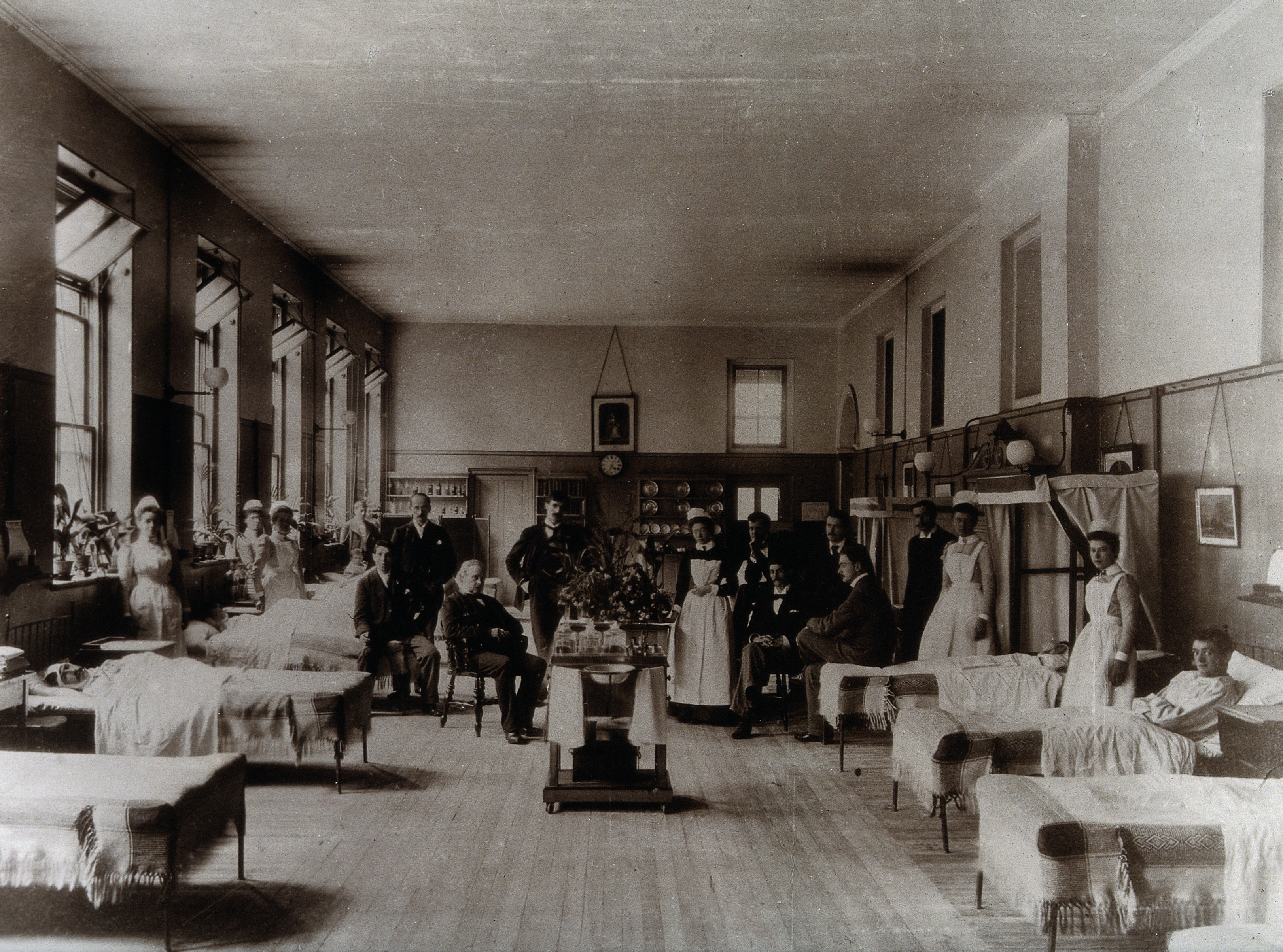 Baron Lister (seated) with his staff, Victoria ward, King's College Hospital, Lincoln's Inn Fields. Iconographic Collections Keywords: portrait photographs; Joseph Lister